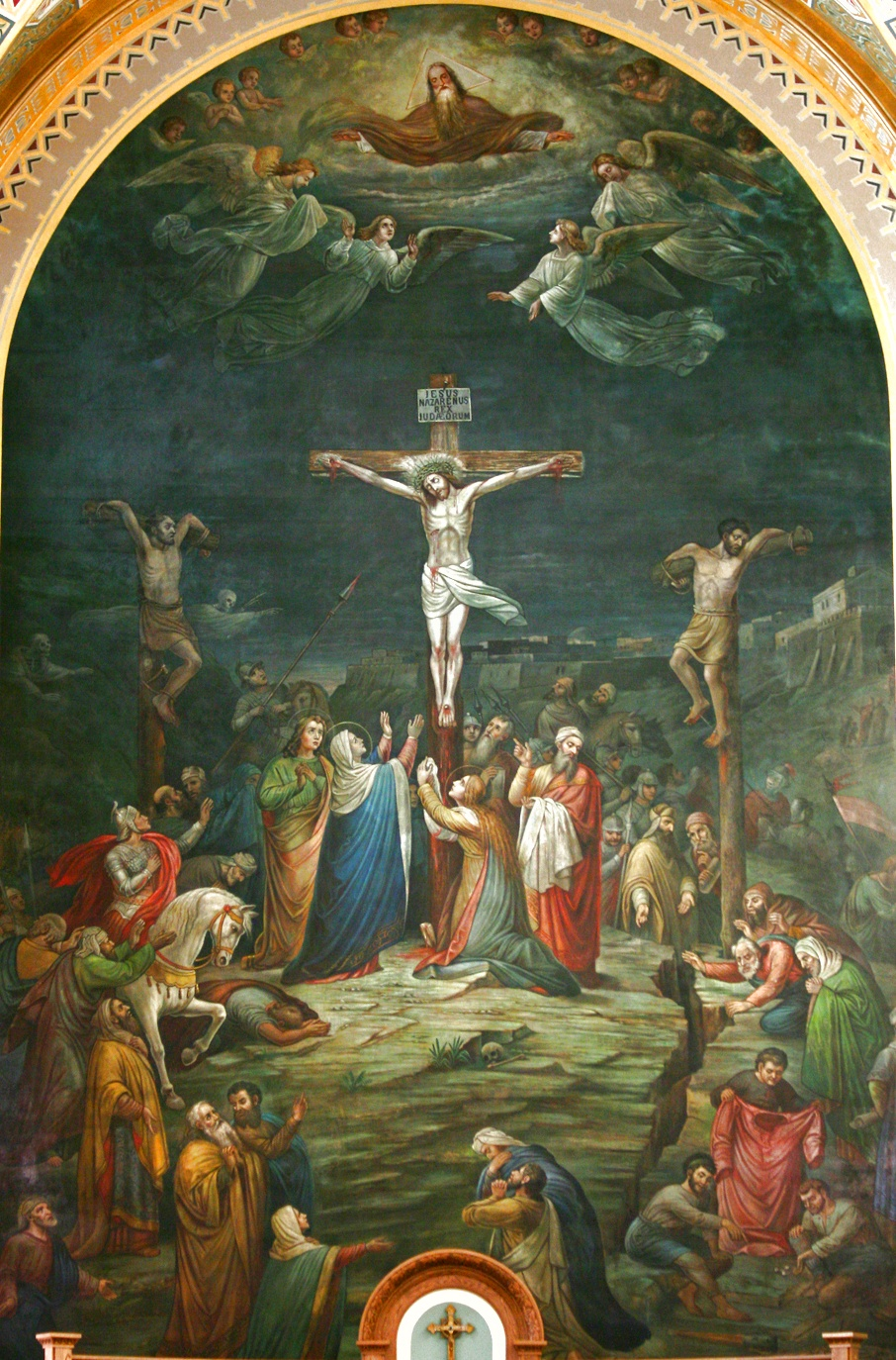 Crucifixion painted by Johann Schmitt at the Saint Francis Xavier Cathedral in Green Bay, Wisconsin, United States.